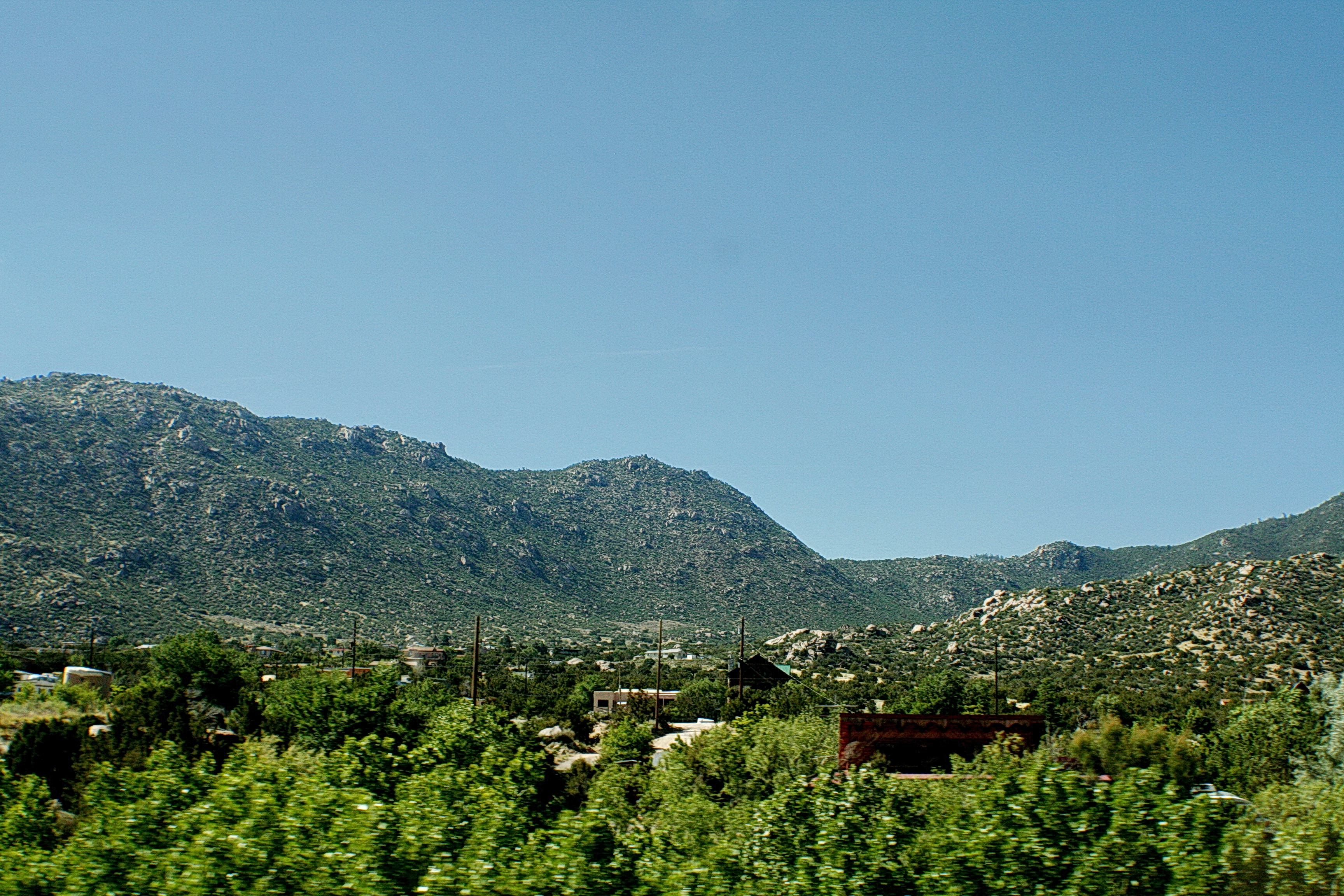 Tijeras Canyon looking at Sandia Mountain at Carnuel